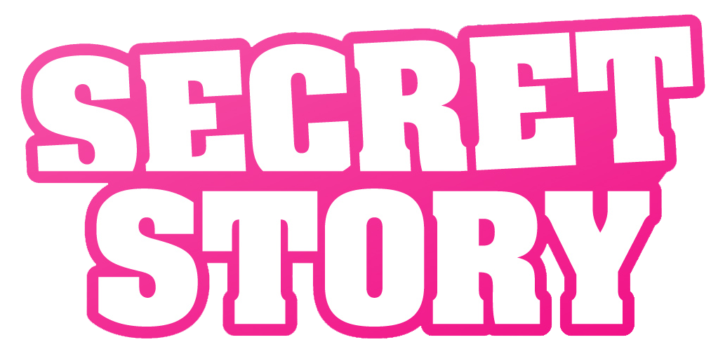 Part of Secret Story Logo (text only)